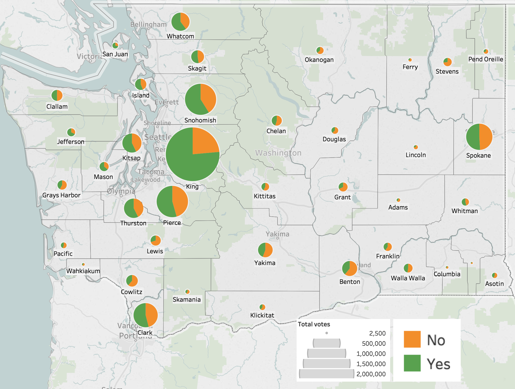 Washington Initiative 1639 election results, showing Yes or No by color, and size showing total votes by county. Source: November 6, 2018 General Election Results[1], Washington State Secretary of State, (Please provide a date or year)